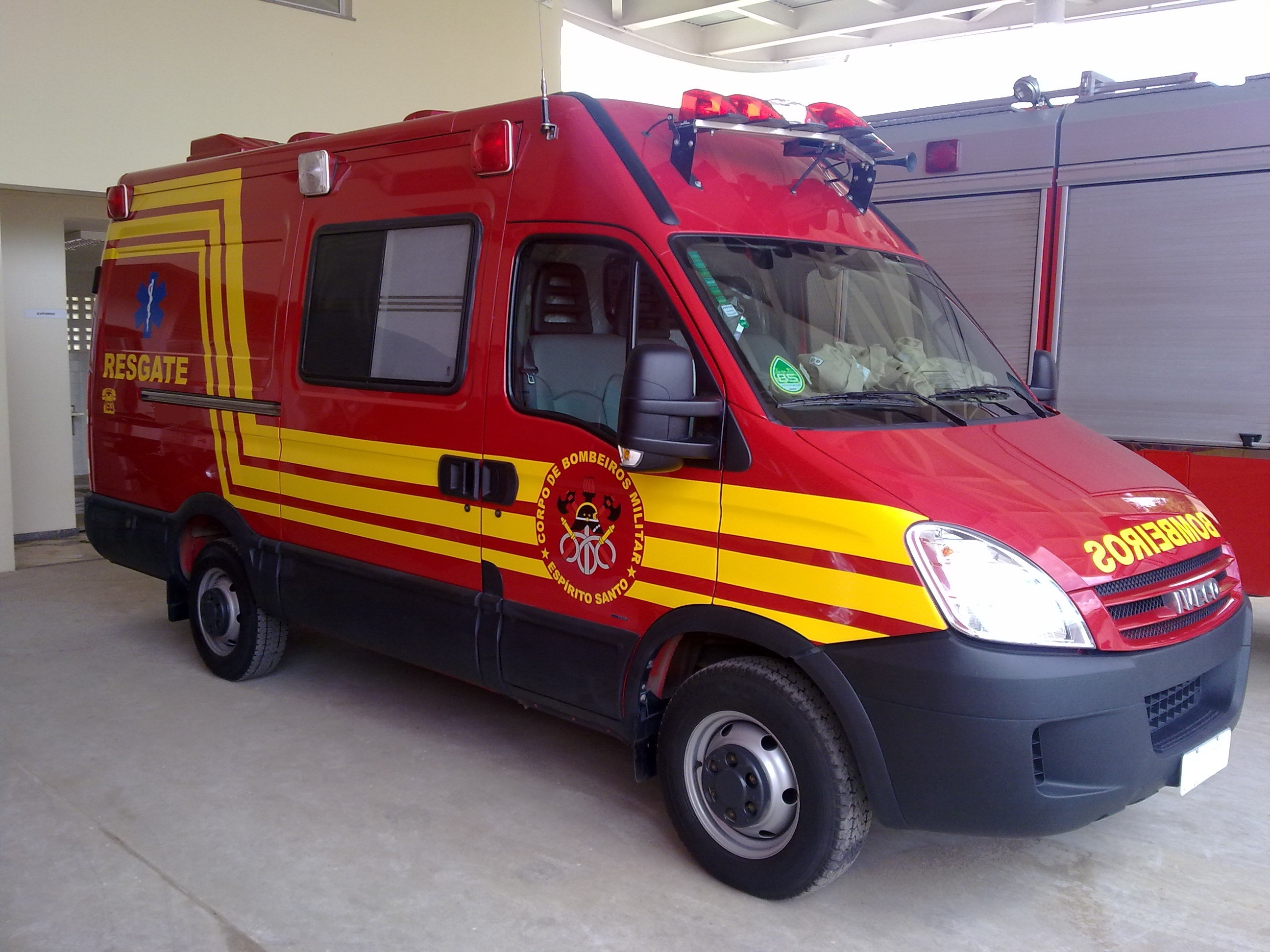 Iveco Daily Mk4 ambulance in Brazil.